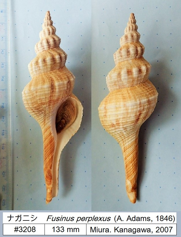 Fusinus perpleus, 133 mm, Mito-hama, Miura pen. Kanagawa, 2007